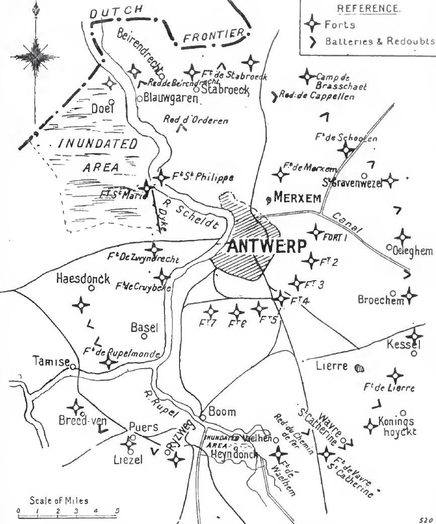 Defences of Antwerp, 1914